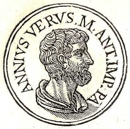 Marcus Annius Verus (died 124) was a distinguished Roman politician who lived in the 2nd century, served as a praetor and was the biological father of the Emperor Marcus Aurelius.